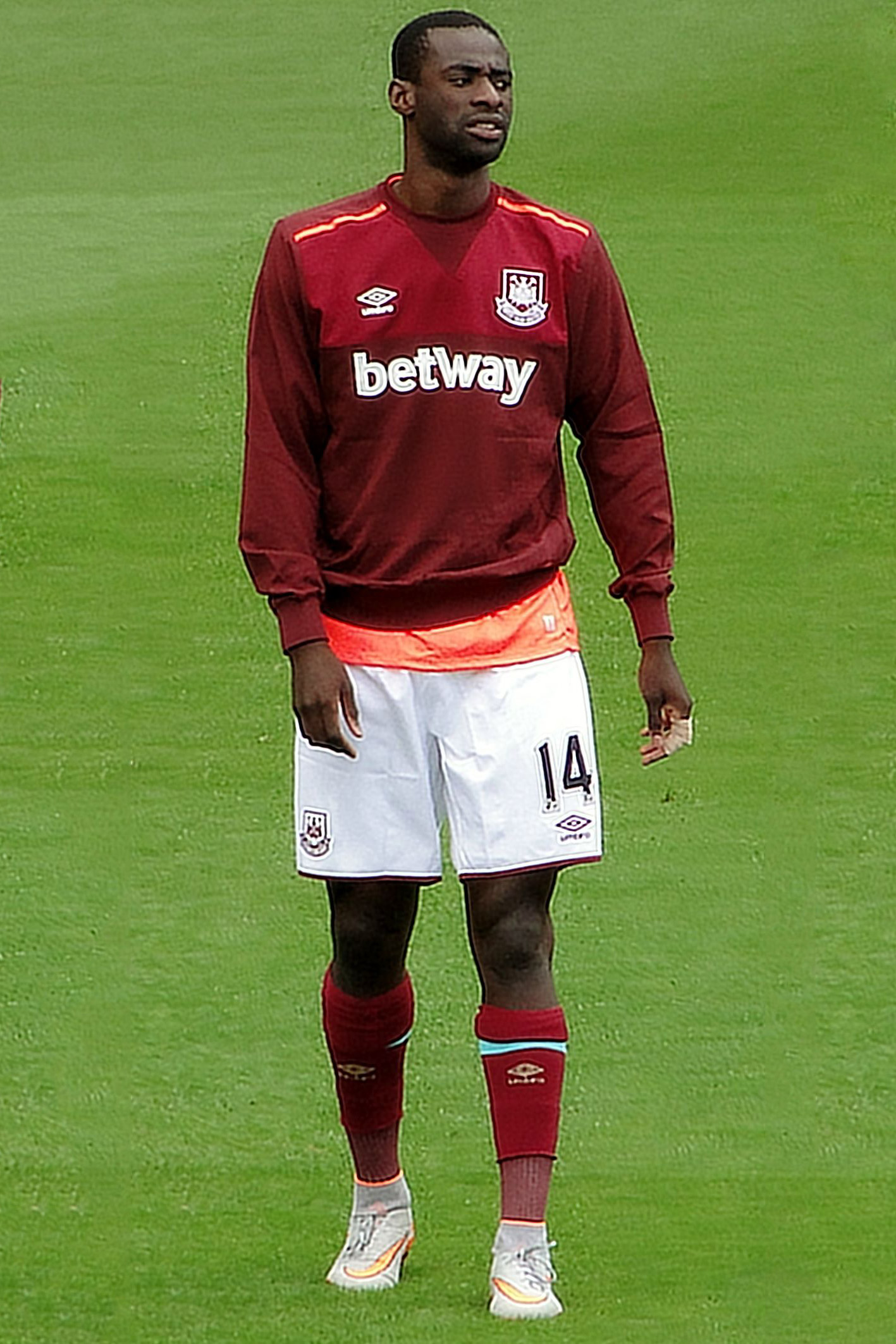 West Ham United player, Pedro Obiang at the Boleyn Ground, August 2015.